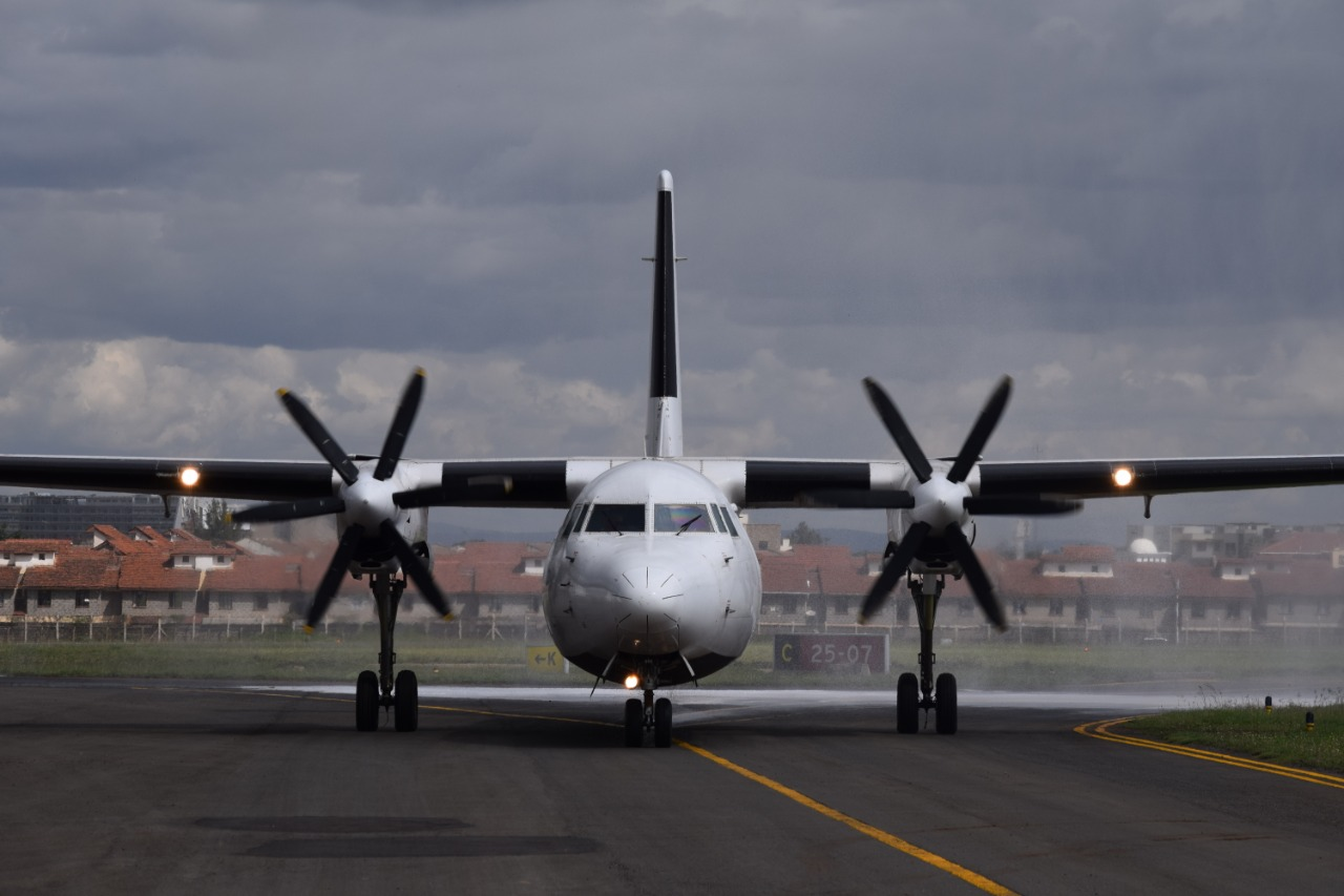 This is an image with the theme "Africa on the Move or Transport" from: Kenya